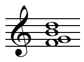 Third inversion chord in C (G7).